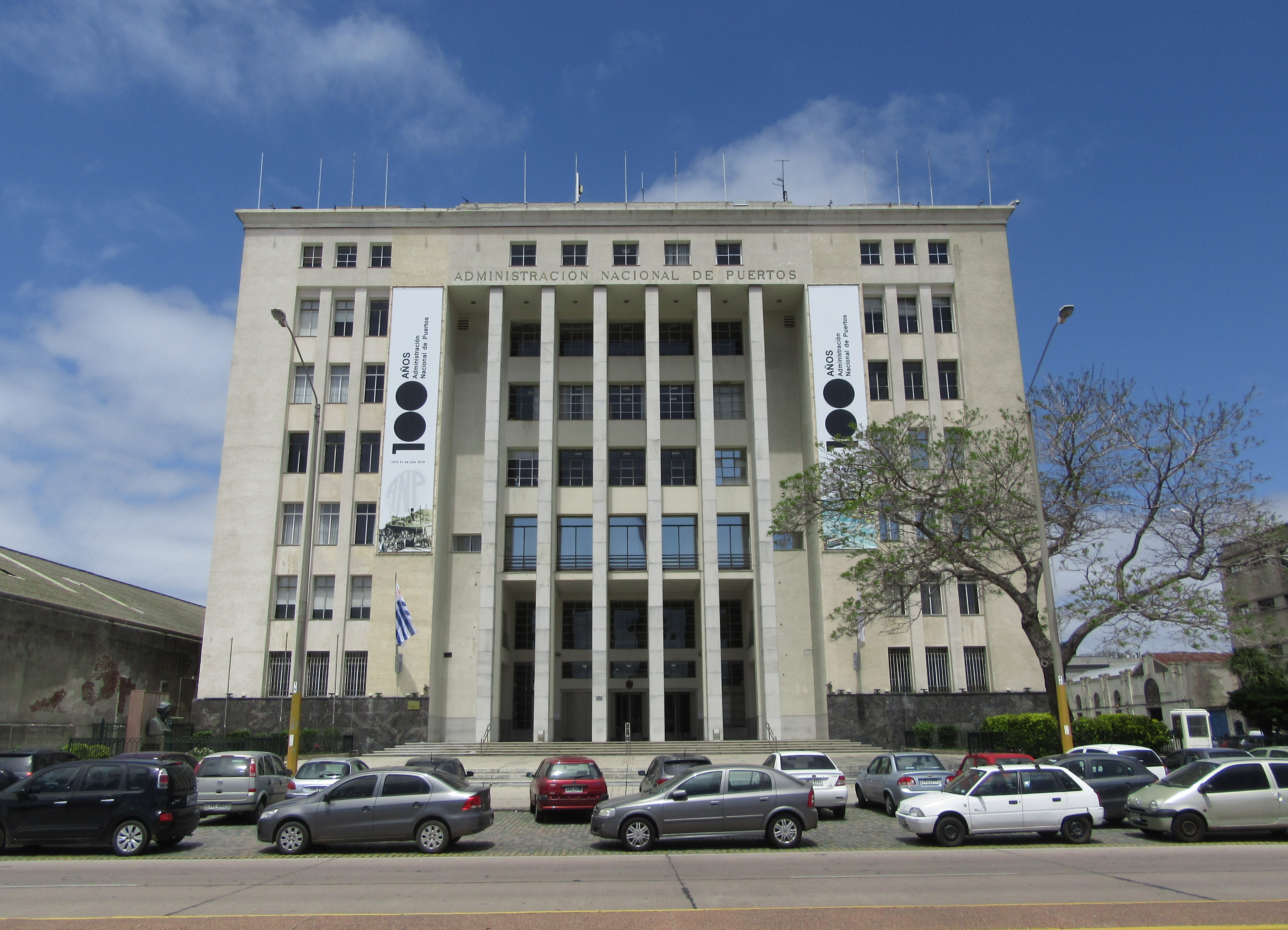 Montevideo